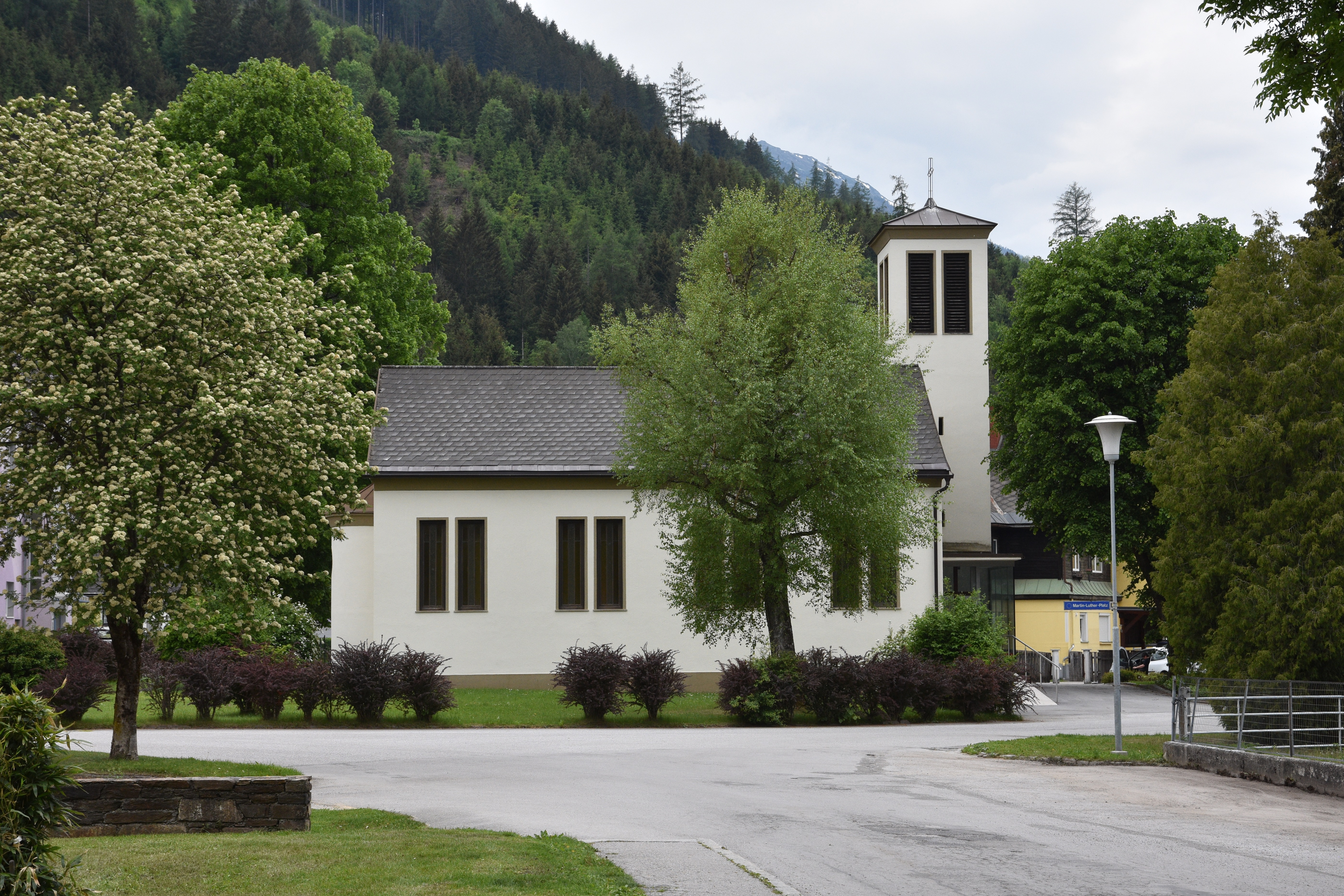 Church Evangelische Kirche Trieben